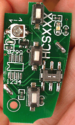 this is a typical printed circuit board of rolling code garage door opener remote control.